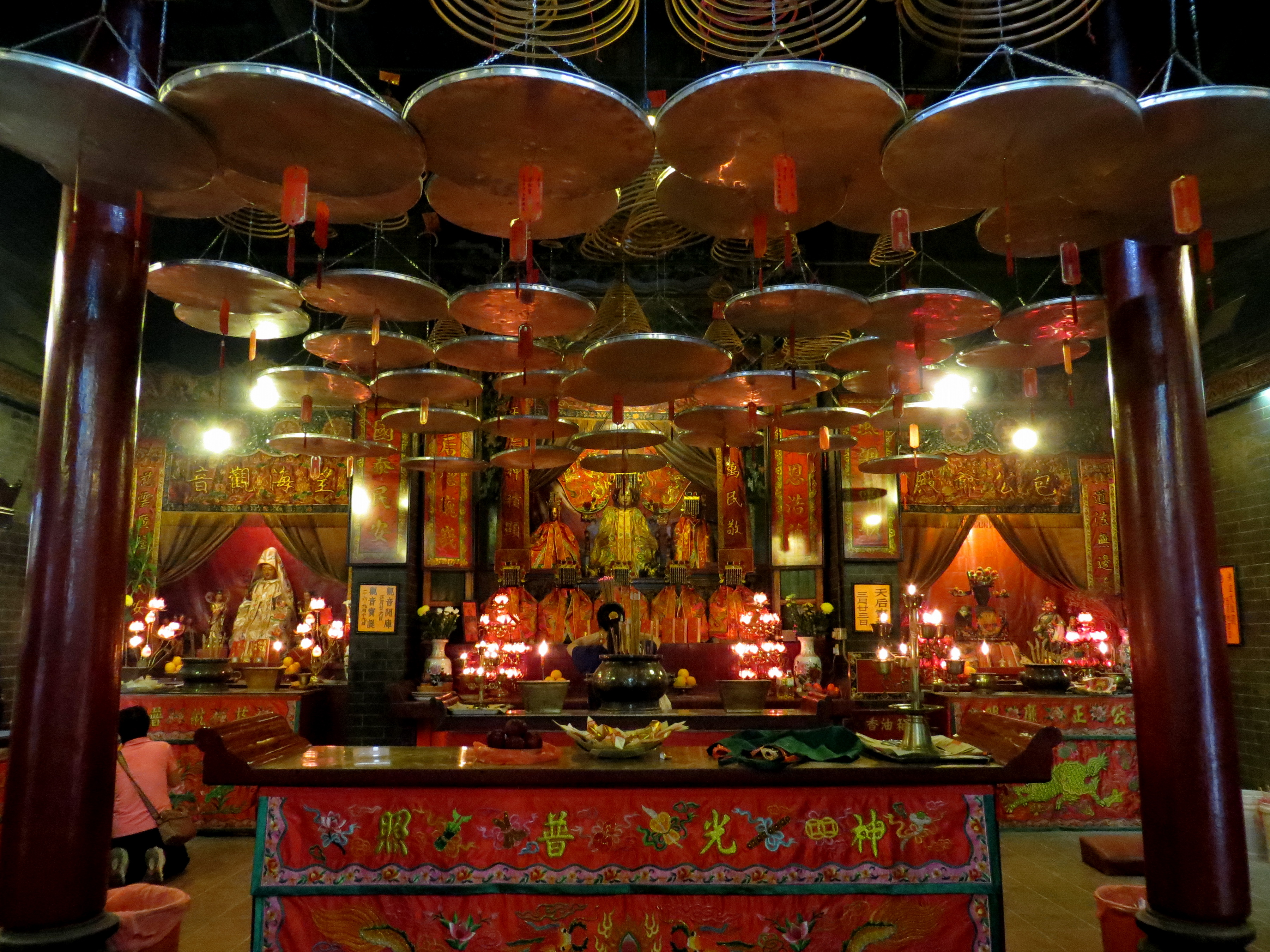 Tin Hau Temple, Sham Shui Po, Kowloon, Hong Kong.